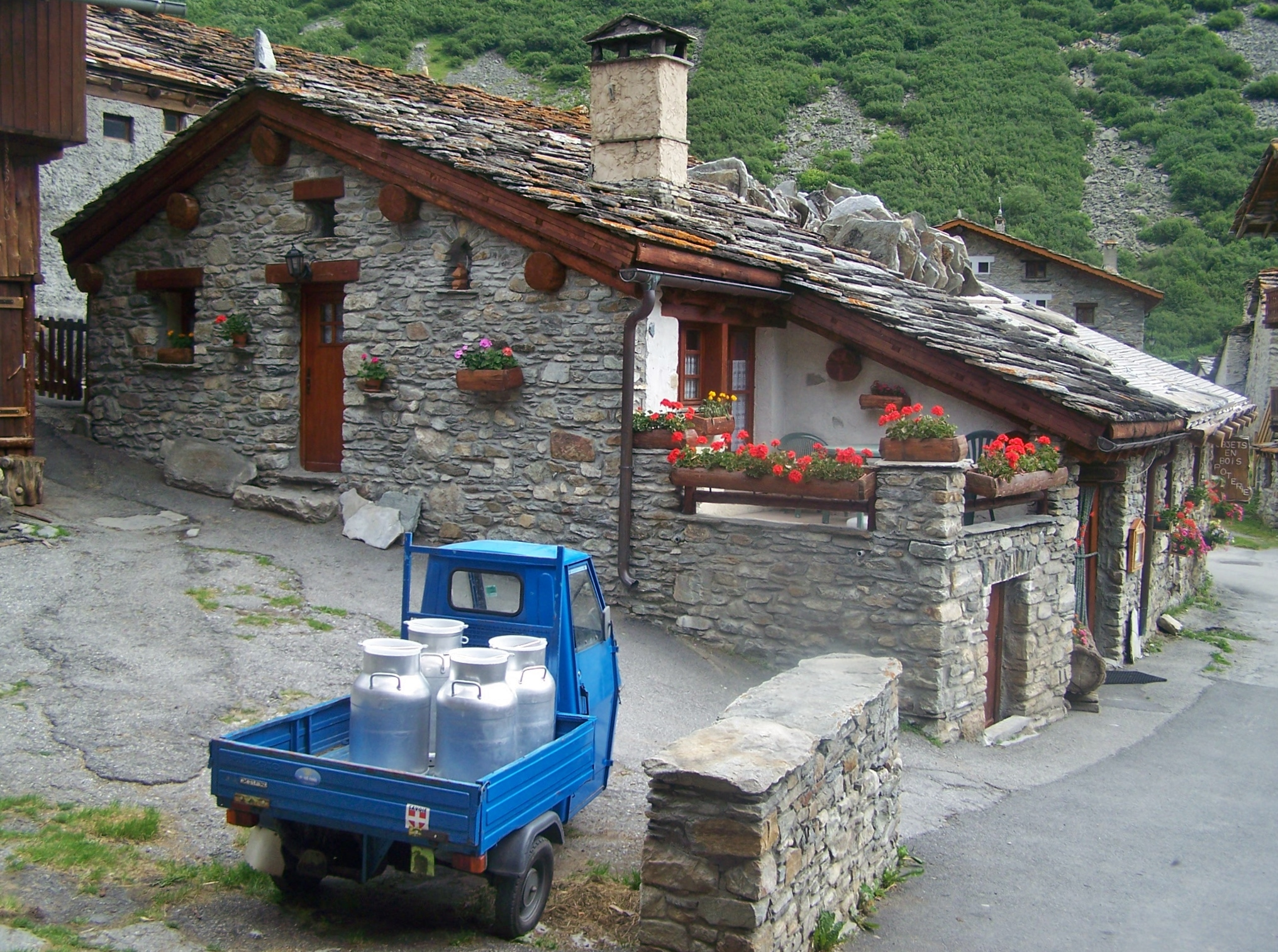 Sight of a street with houses and milk cans in the village of Bonneval-sur-Arc, the very last one at the end of the Maurienne valley in Savoie, France.